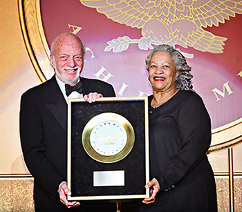 Broadway director Harold Prince receives the Golden Plate award from Nobel laureate Toni Morrison at the American Academy of Achievement’s 46th annual International Achievement Summit in Washington, D.C. on Saturday, June 23, 2007.